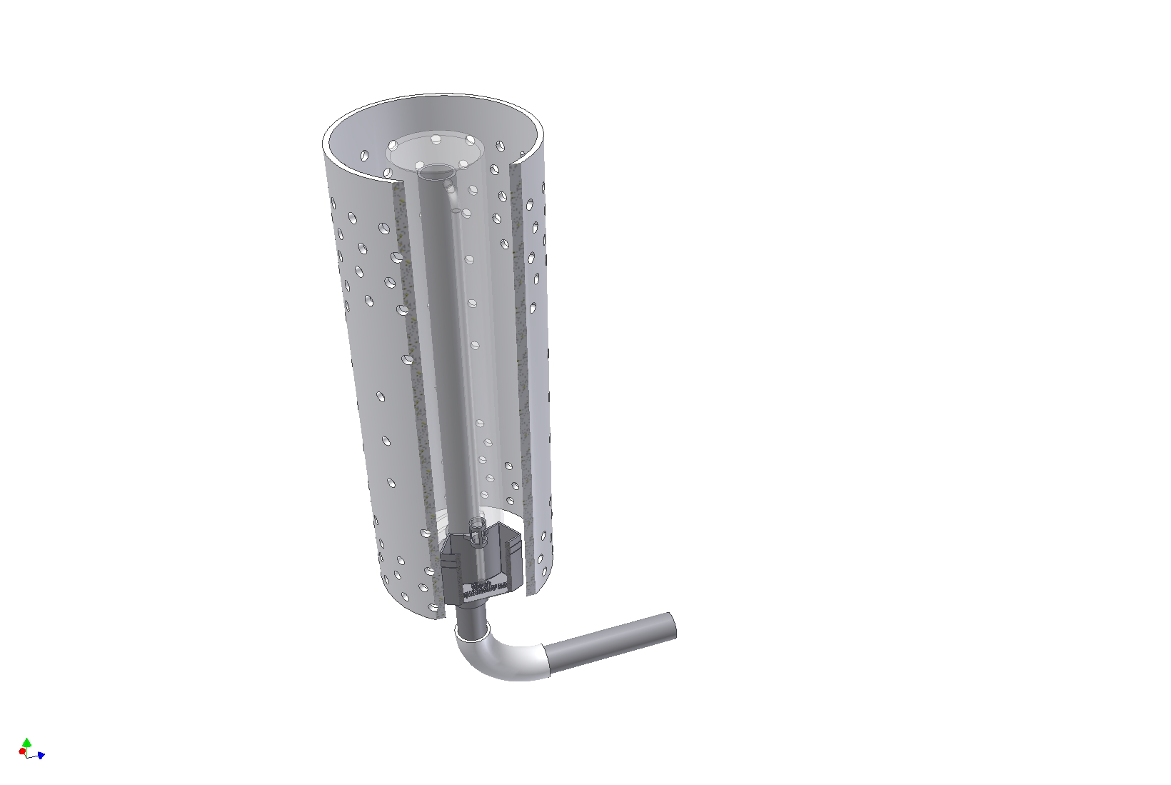 Bell siphon by vasch aquaponics